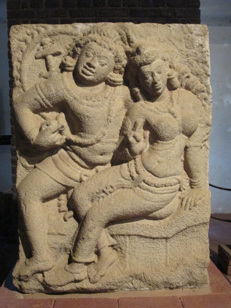 So-called “Lovers of Isurumuniya”. Currently displayed at Archaeological museum of Isurumuniya, Sri Lanka. (6-8 centuries AD)